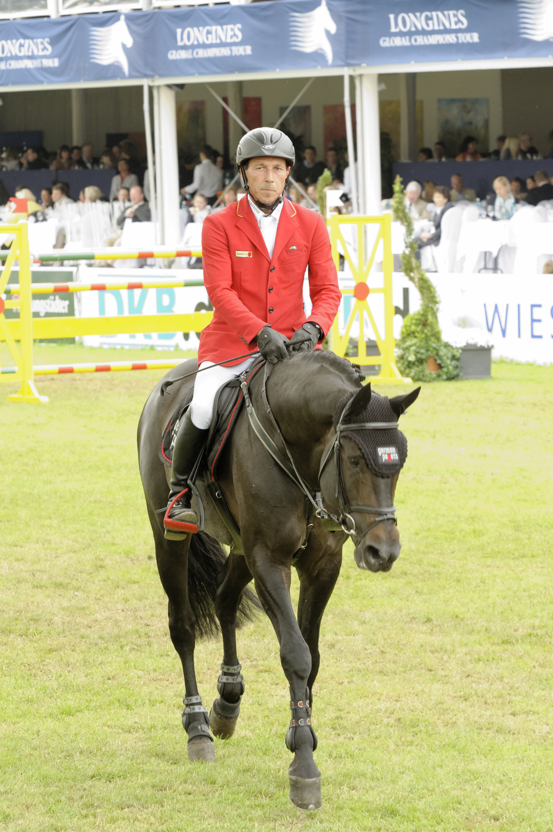 Internationales Pfingstturnier Wiesbaden 2013 The making of this document was supported by the Community-Budget of Wikimedia Germany.